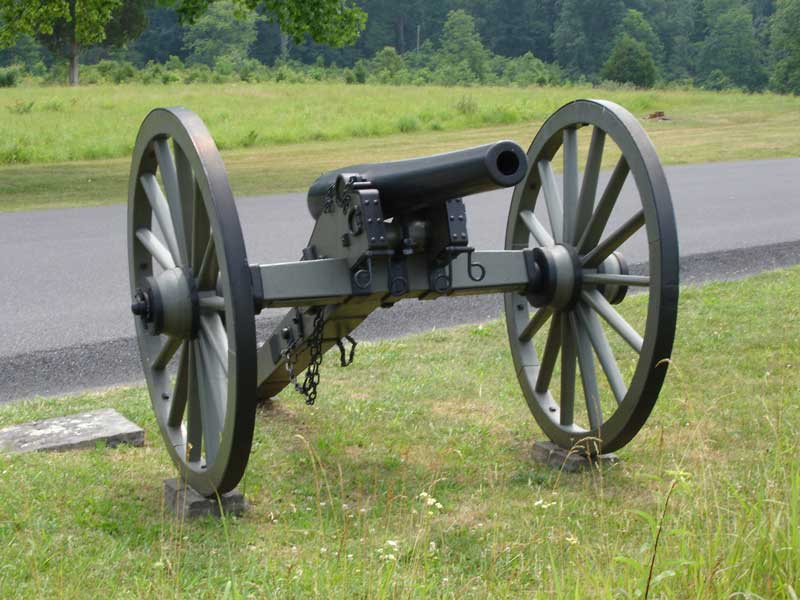 photographed at Gettysburg National Military Park, 2005 The Griffen gun was invented by John Griffen at the Phoenix iron works, Phoenixville, Pa.